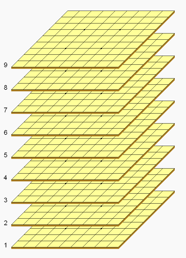 Space Shogi 3D gamespace, done in MSPAINT